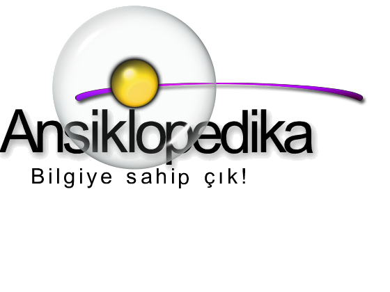 logo